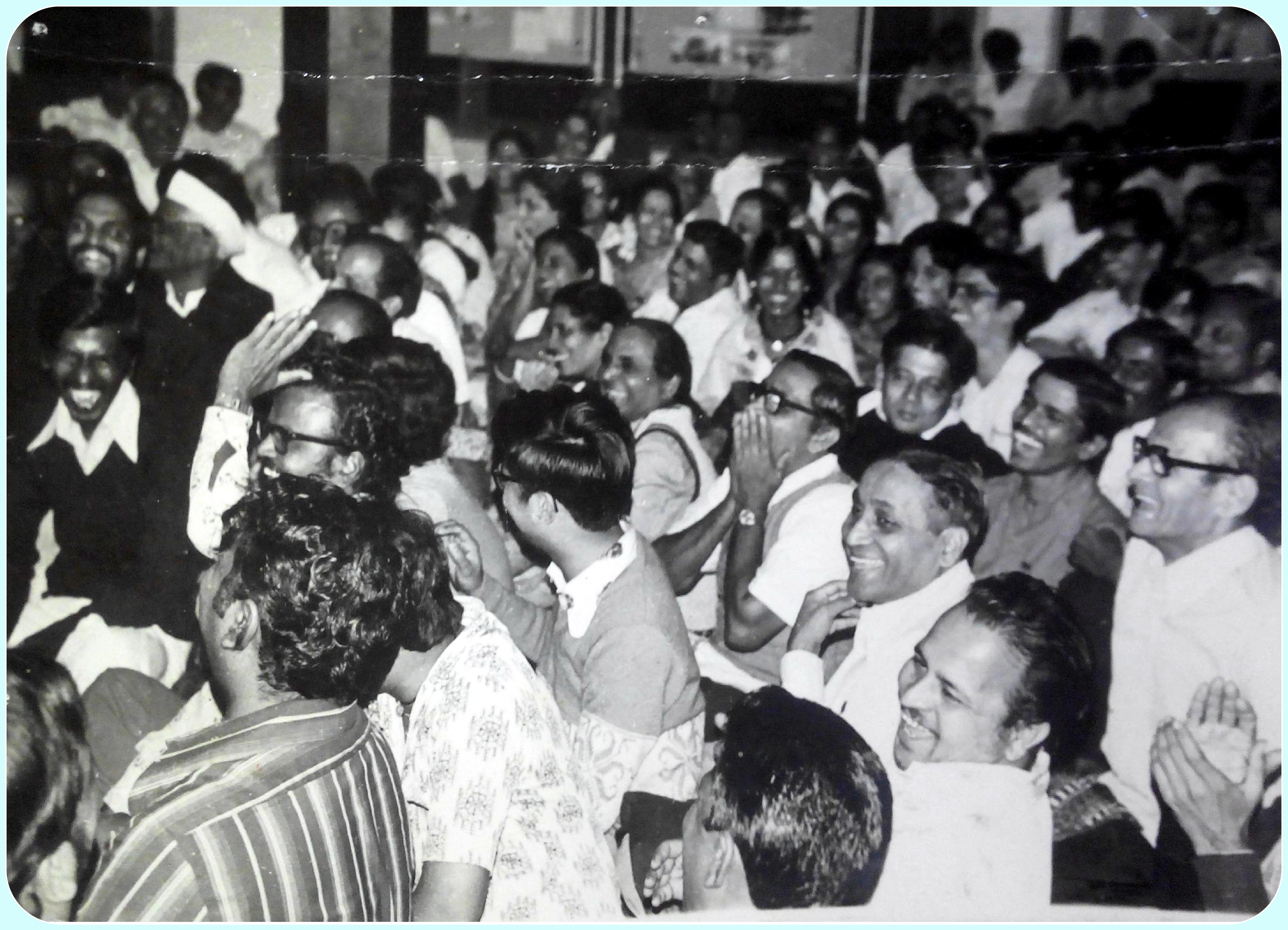 Wah Wah of the audience